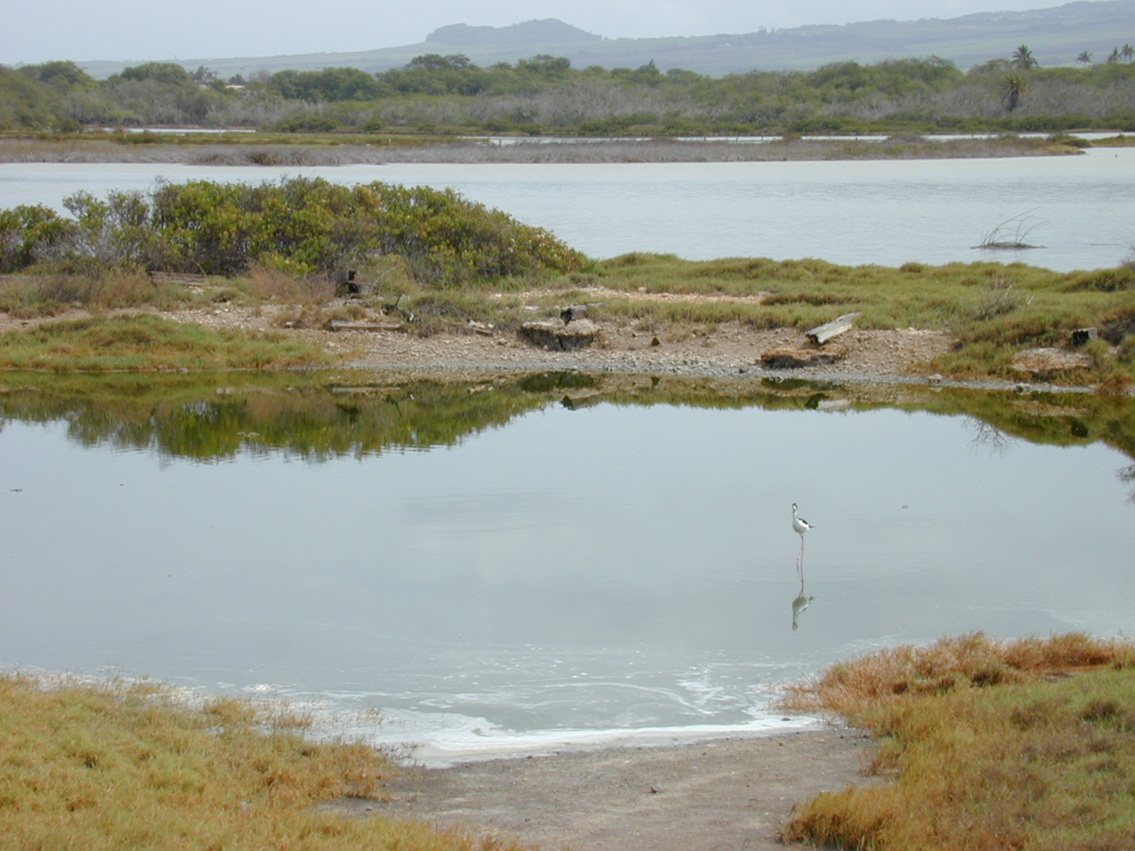 Distichlis spicata (stilt). Location: Maui, Kanaha Pond